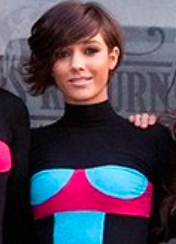 Cropped from